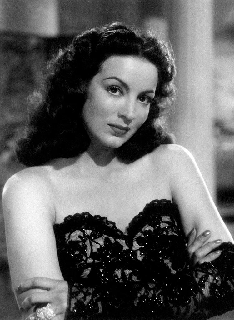 Mexican actress Maria Félix wearing a lace bodice in the film La diosa arrodillada (